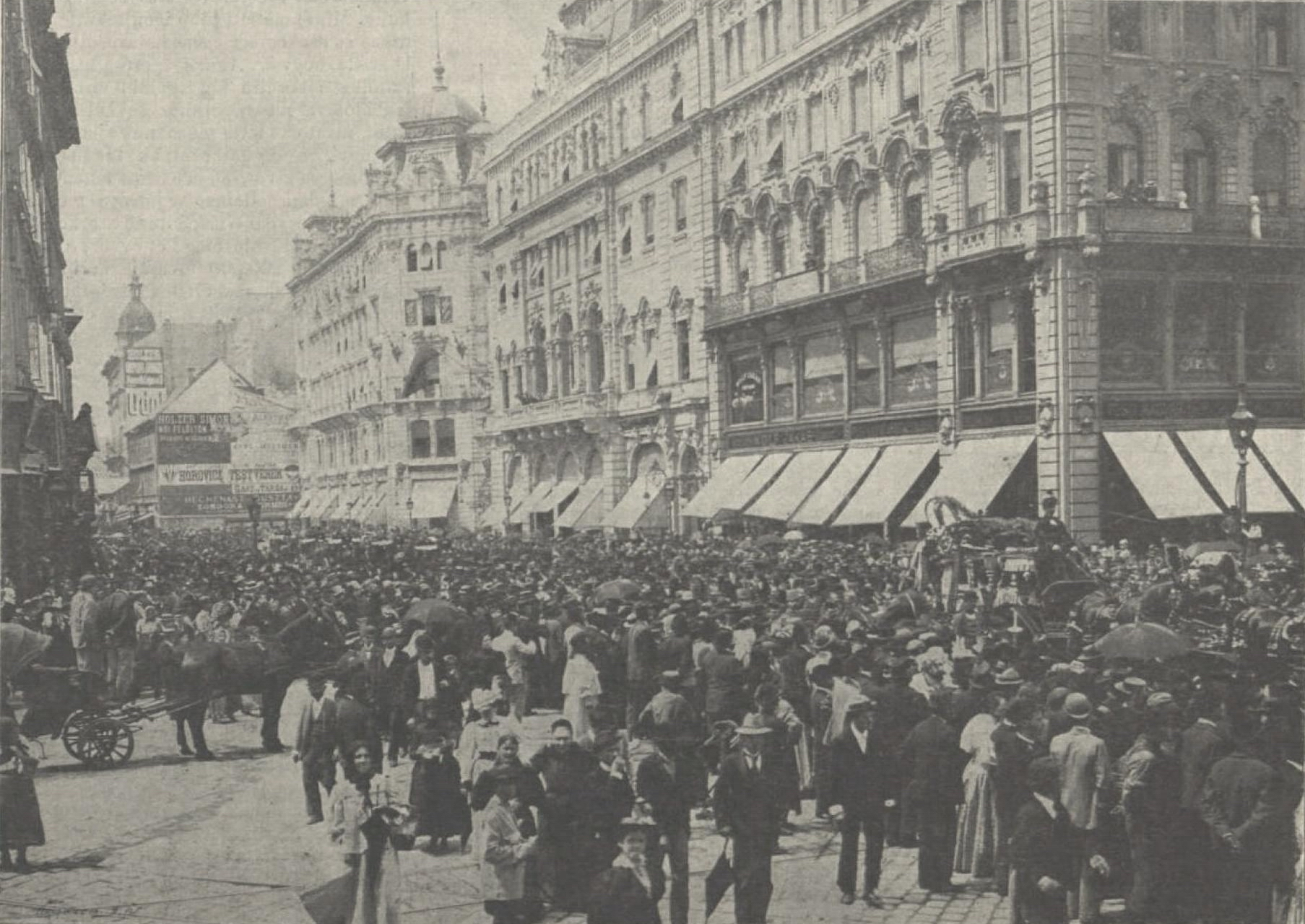 Károly Ráth's burial, 1897, Budapest